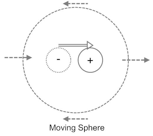 Description of Dipole Motion